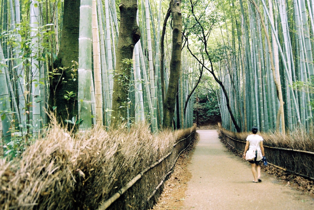 Bamboo forest, Arashiyama, Kyoto. Forest path with bamboo fence.